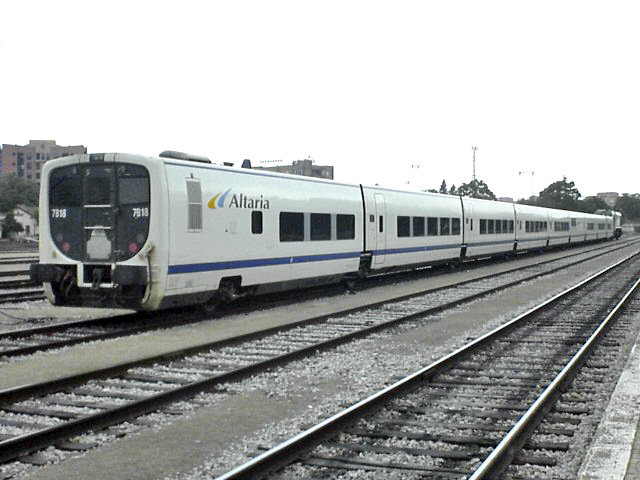 Talgo VII at Granada Station.